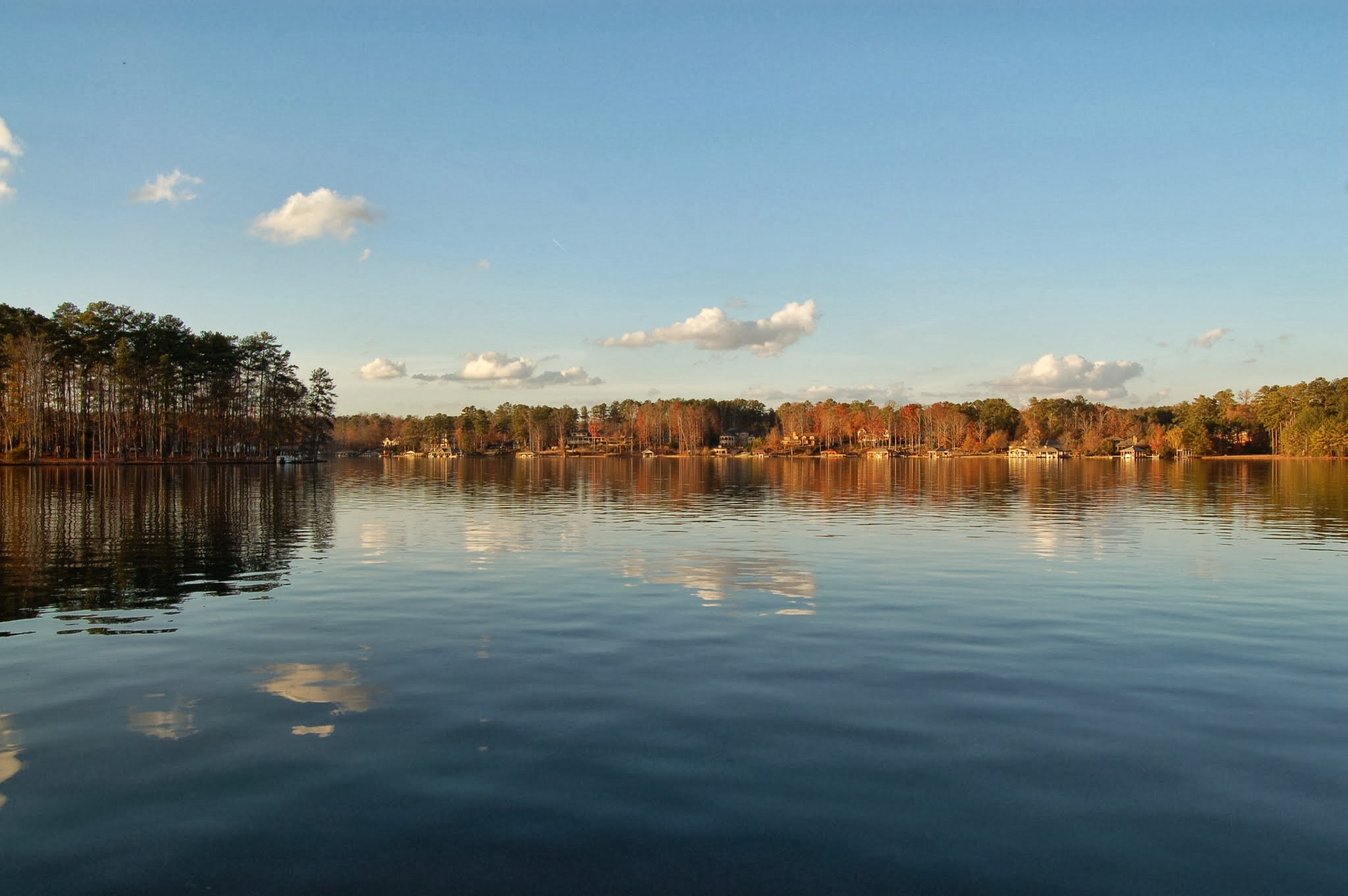 Lake Spivey on a clear winter day.